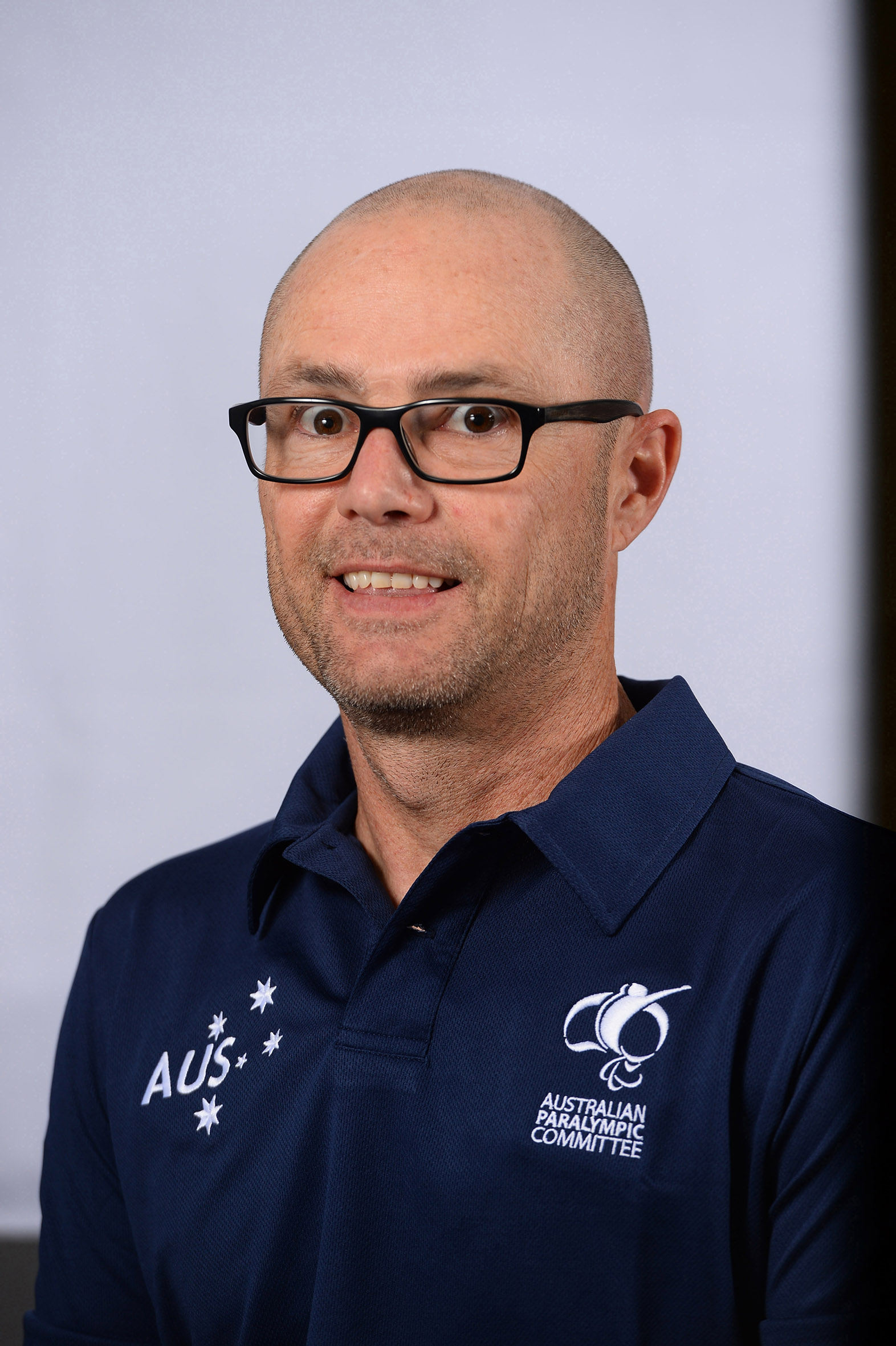 Portrait photograph of Anton Zappelli taken at team processing session for shadow members of 2016 Australian Paralympic team